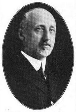 William Henry Heald, Delaware Congressman.